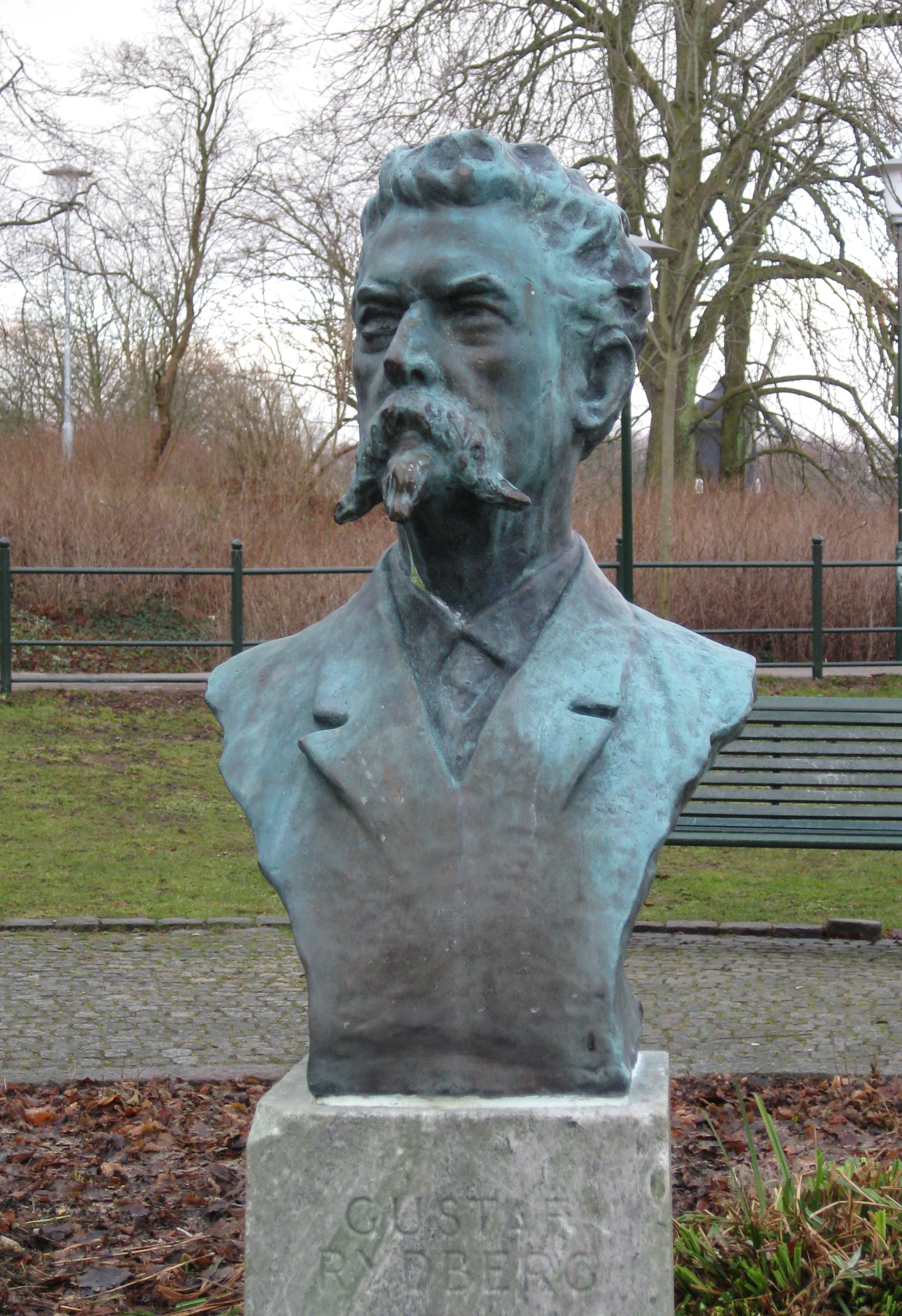 Bust of the painter Gustaf Rydberg in Kungsparken in Malmö, Sweden